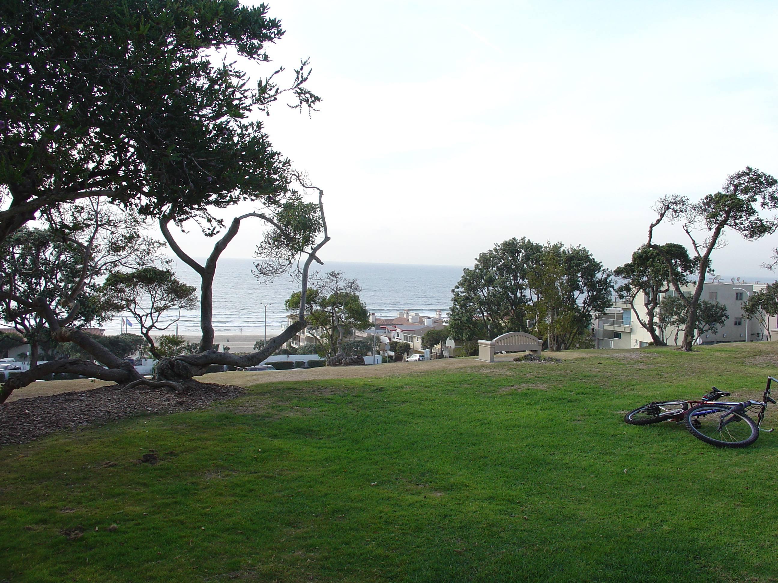 View from the top of Bruce's Beach, November 2009. Photo by ChildofMidnight. Attribution required. The metadata below is not entirely correct. This photo was taken December 1, 2009.